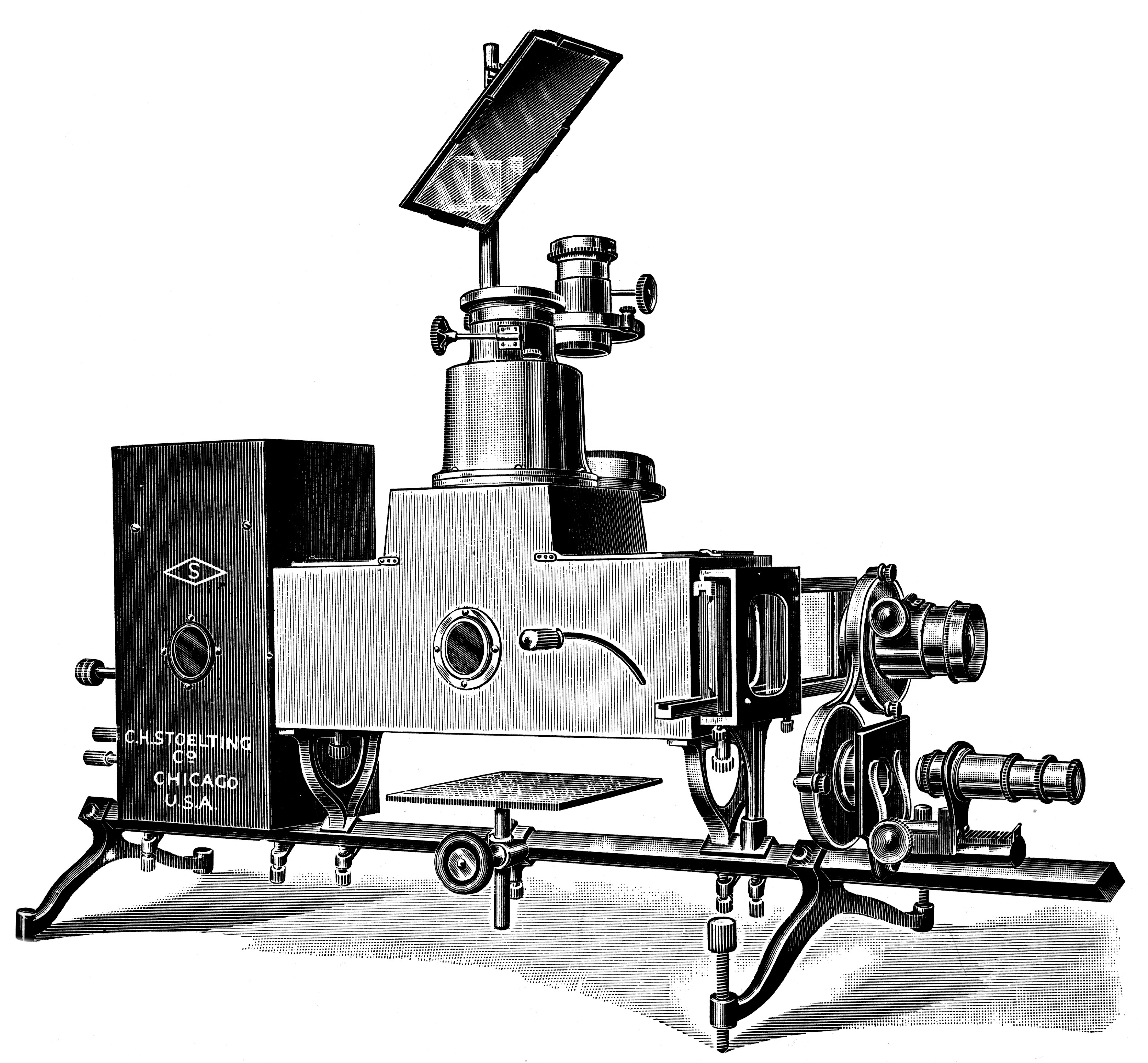 caption: "Fig. 102. Universal Projectoscope. This instrument as shown in the picture is designed to project: (1) Lantern slides and other transparencies in the usual vertical position or in a horizontal position. (2) Opaque objects. (3) Microscopic objects. For this the lantern-slide objective is turned back and the microscope turned up in place."